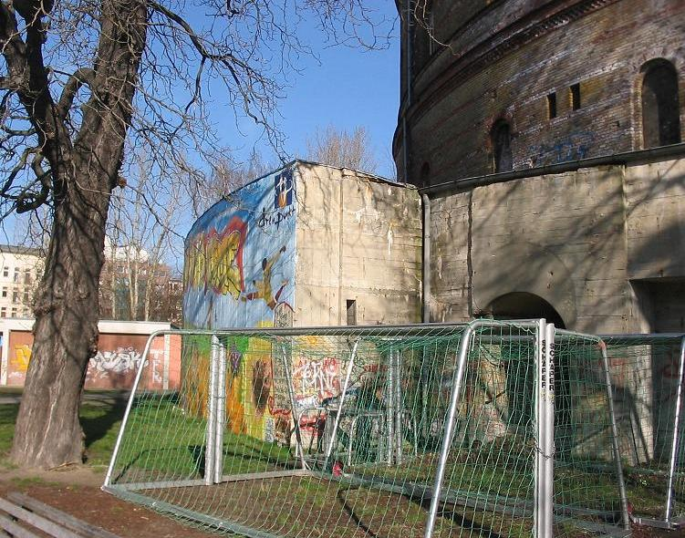 Listed Fichtebunker in the Fichtestreet, Berlin-Kreuzberg. It’s the oldest conserved Stonegasometer in Berlin. Built in 1874 by the civil engineer Johann Wilhelm Schwedler. In WWII used as air-raid shelter.